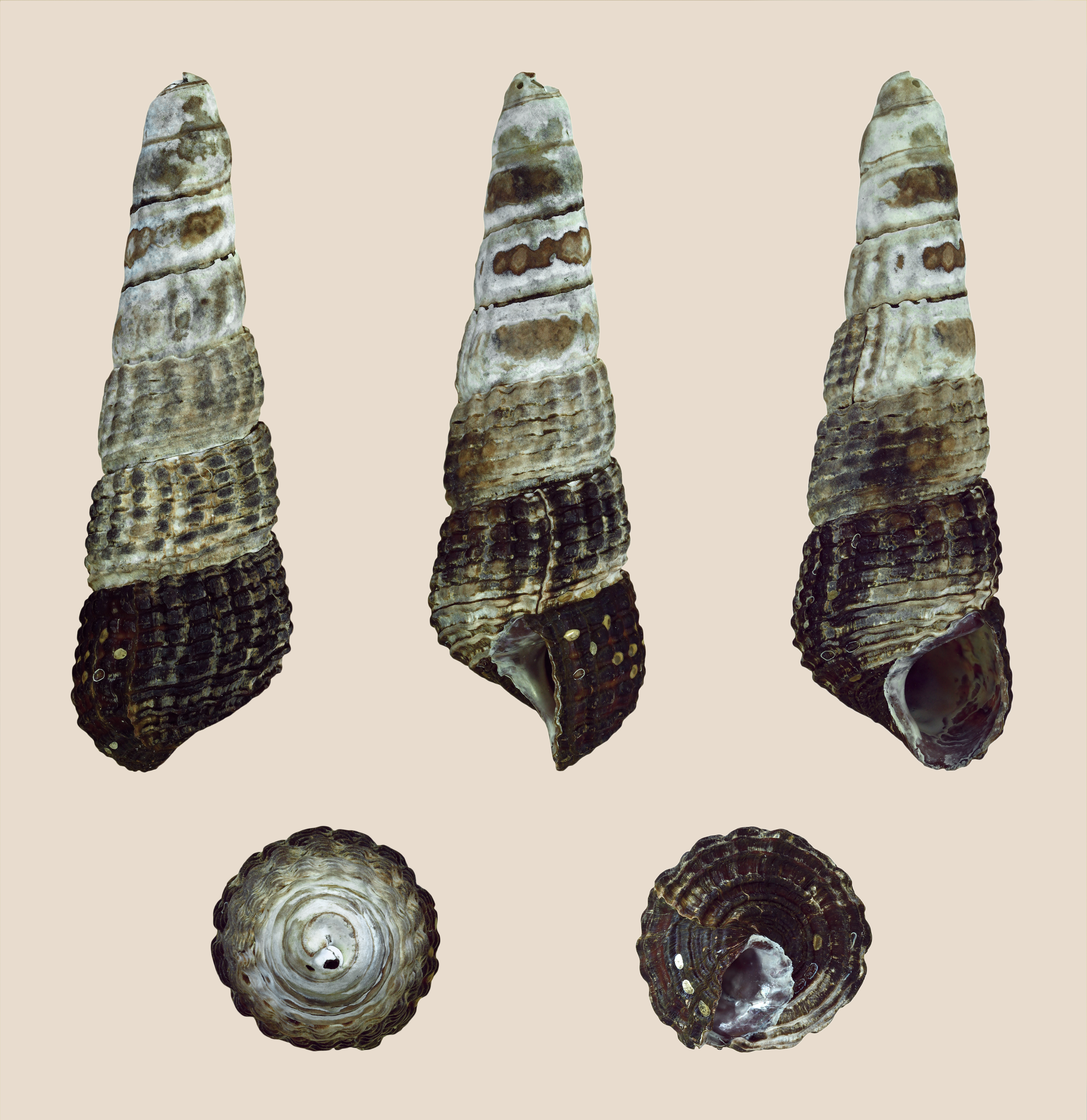 Black Sulawesi Snail; Length 6.0 cm; Aquarium breeding; Native land: Sulawesi, Indonesia; Shell of own collection, therefore not geocoded. Dorsal, lateral (right side), ventral, back, and front view.